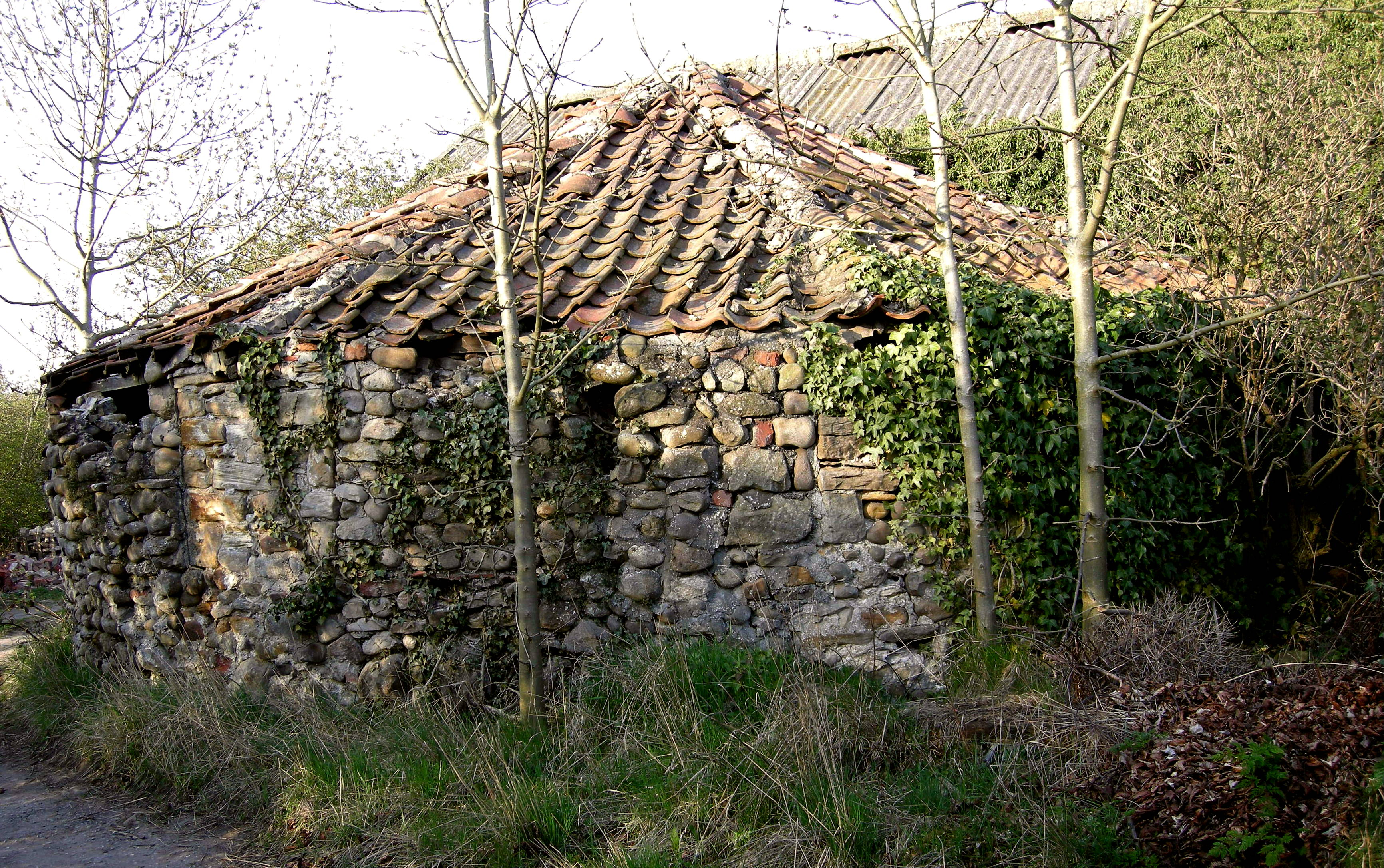 Derelict gin gang at Stapleton Bank, Stapleton, Richmondshire, England.